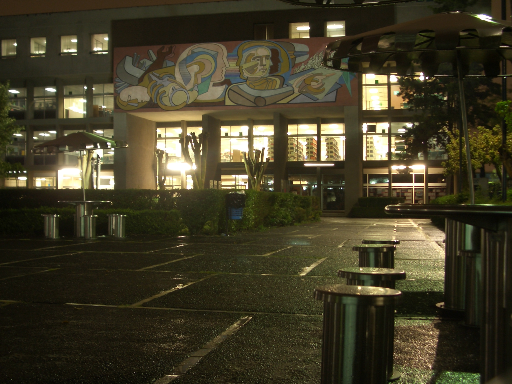 The library of the UAM campus Iztapalapa. The painting is of Arnold Belkin